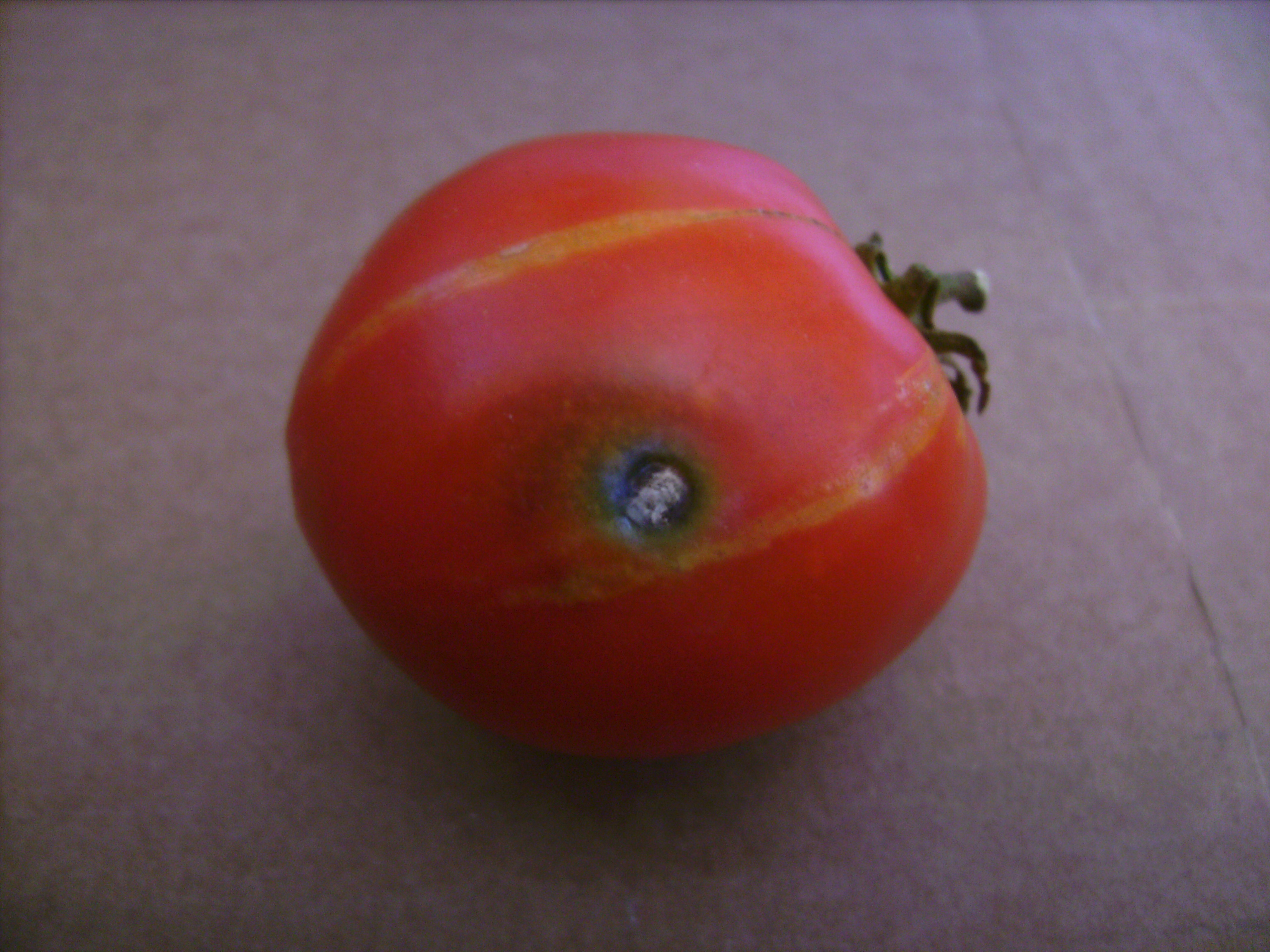 Bored tomato, cultivar Ace, Castelltallat, Catalonia